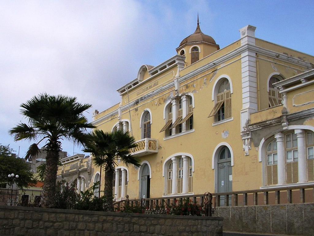 "Liceu Gil Eanes", oldest secondary school in Cape Verde, located in Mindelo town, São Vicente island